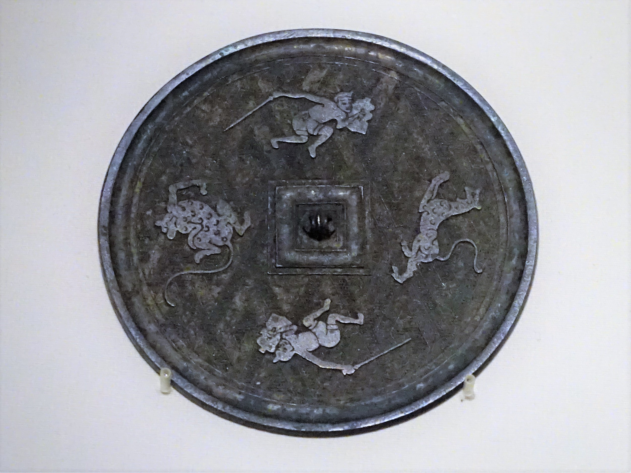 Bronze Mirrors with Warriors Fighting Leopards. Warring States Period, Qin State. Unearthed at Shuihudi, Yunmeng, Hubei Province, 1975.